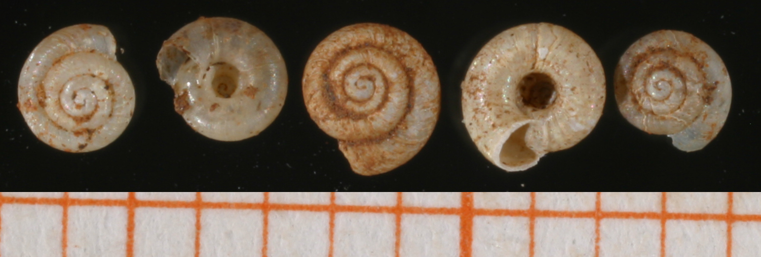 shells of Hawaiia minuscula. (Scale is in mm.) Locality: USA: Georgia, Wikes Co., Washington, 27-10-1987.